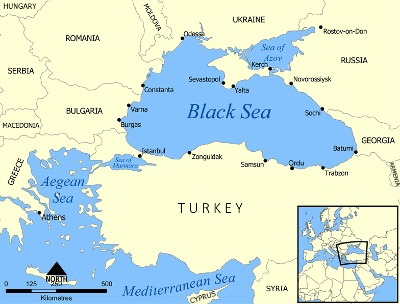 A map showing the location of the Black Sea and some of the large or prominent ports around it. The Sea of Azov and Sea of Marmara are also labelled.